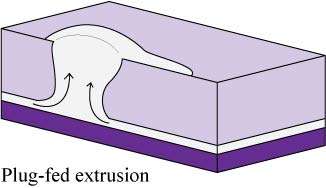 Illustration of Extrusive Advance